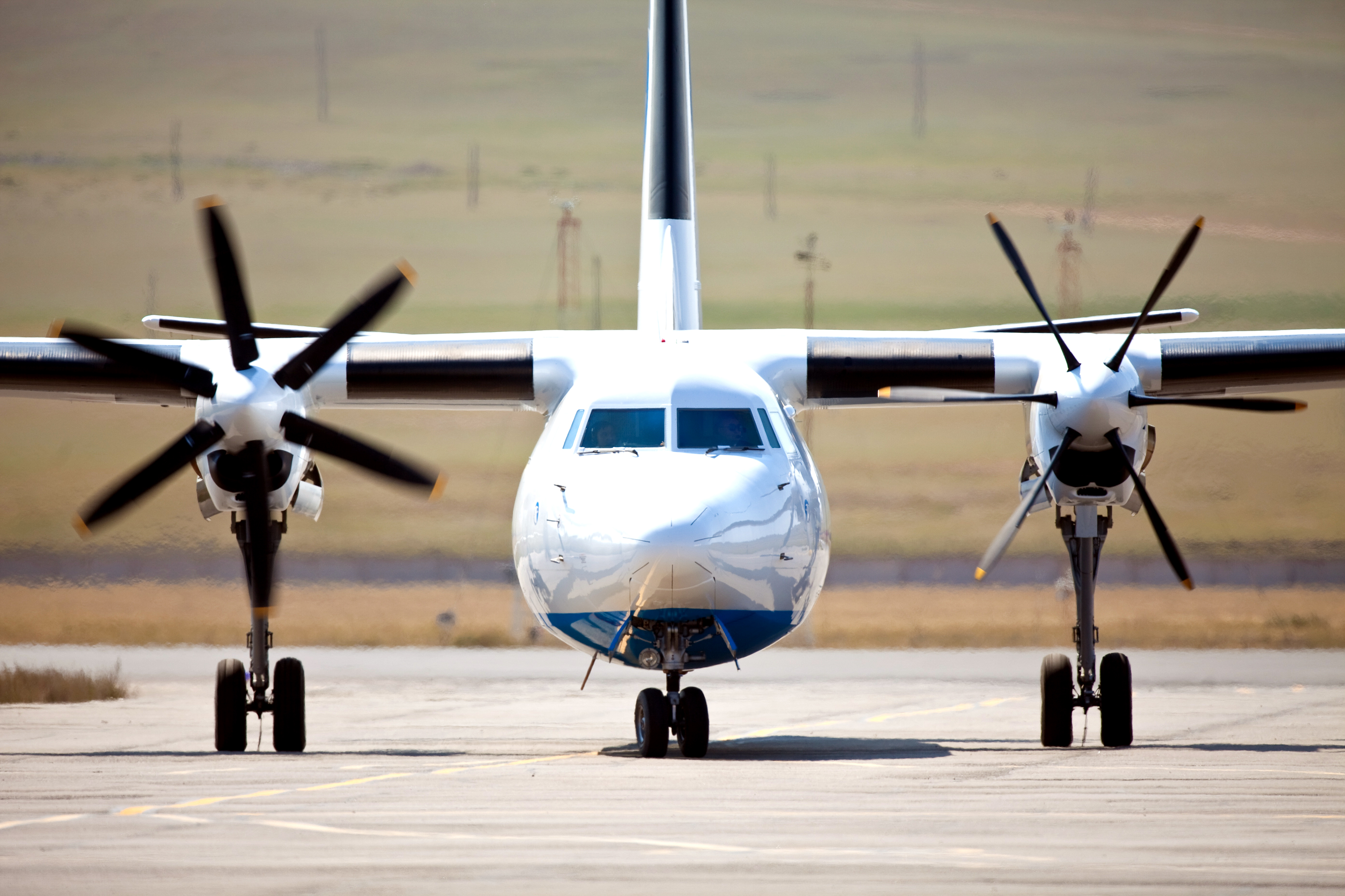 Fokker 50 Aero